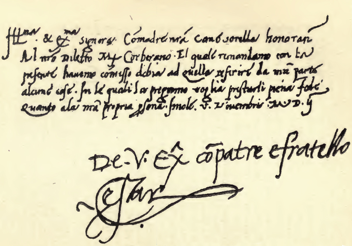 Holograph letter by Cesare Borgia to Isabelle d'Este, signed "Cesar", the spanish version of his name The text in this image should be transcribed and included in the description on this page. See also Transcription . The Google OCR tool may be of use in transcribing images.